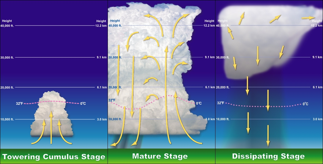 Diagram from NOAA National Weather Service training materials showing the formation and dissipation of a thunderstorm.